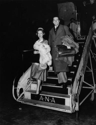 Sir Laurence Olivier and Lady Olivier (Vivien Leigh) smile at he waiting crowd as they step from the plane at Archerfield Aerodrome. They were enroute to Surfers Paradise. The Oliviers had flown from Hobart where they were touring with the Old Vic Company. (Information taken from the Courier Mail, 21 June 1948, p.1)